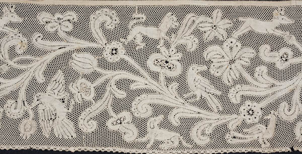 Wide edging lace, Italy, Milan, 17th century, Honolulu Academy of Arts